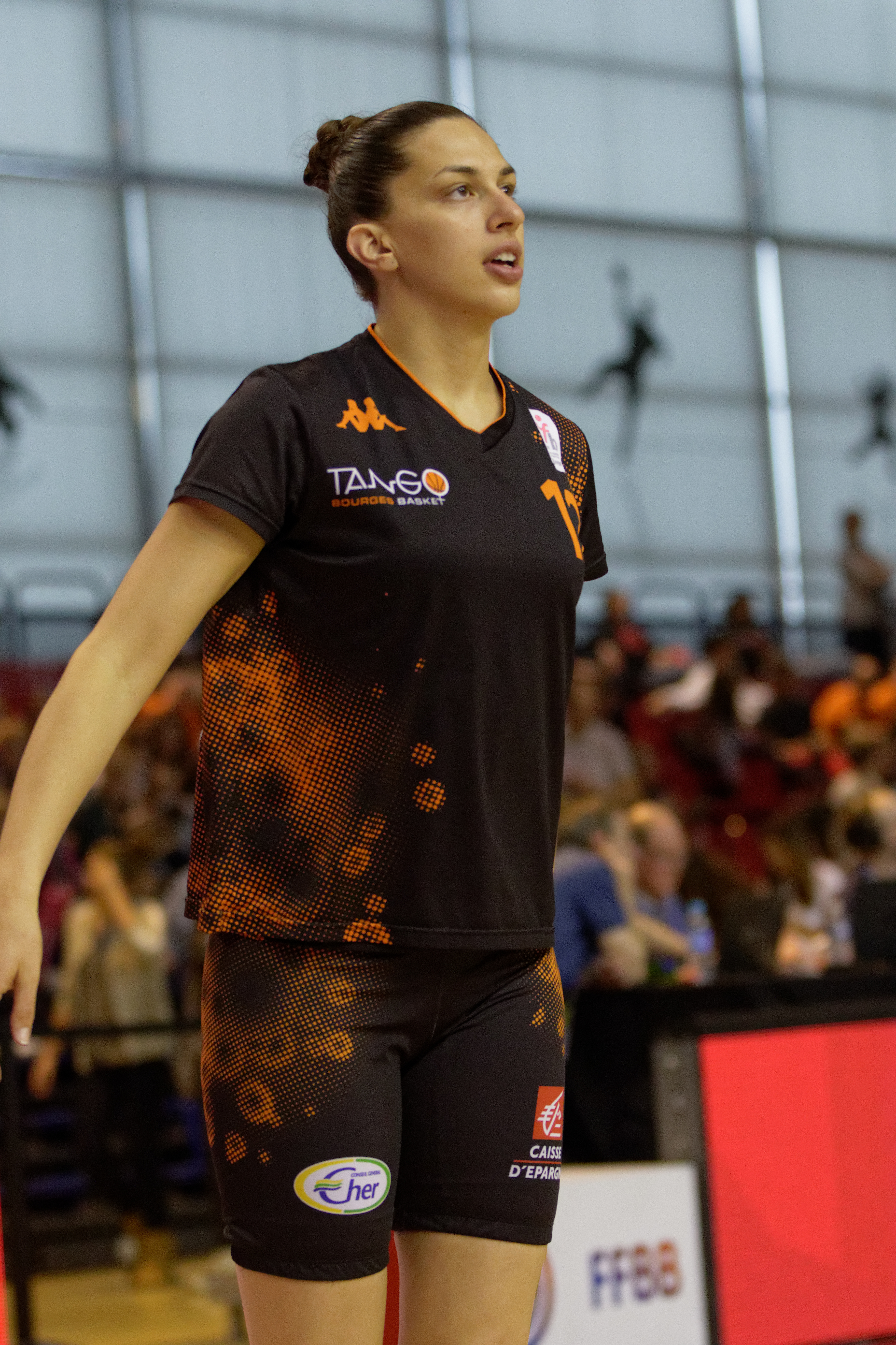 Final of the French Basketball Cup, Lattes-Montpellier vs Bourges, 2nd May 2015.